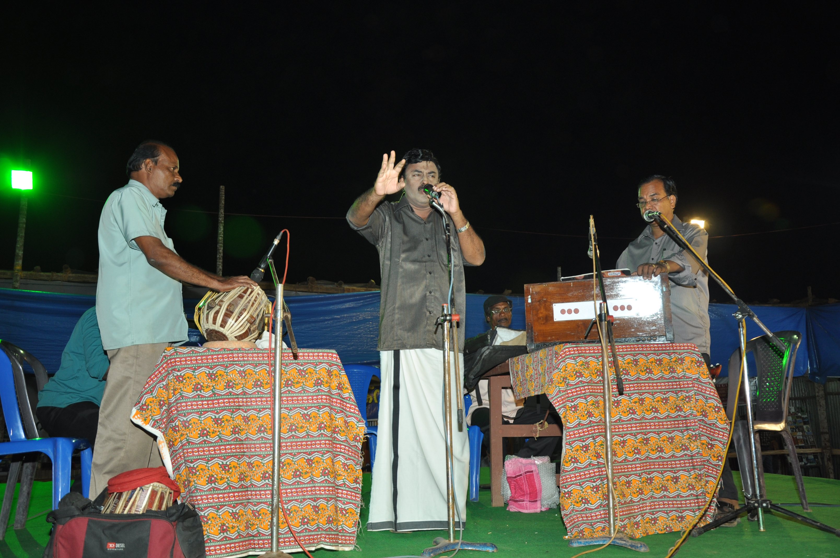 Kathikan Vasanthakumarsambasivan